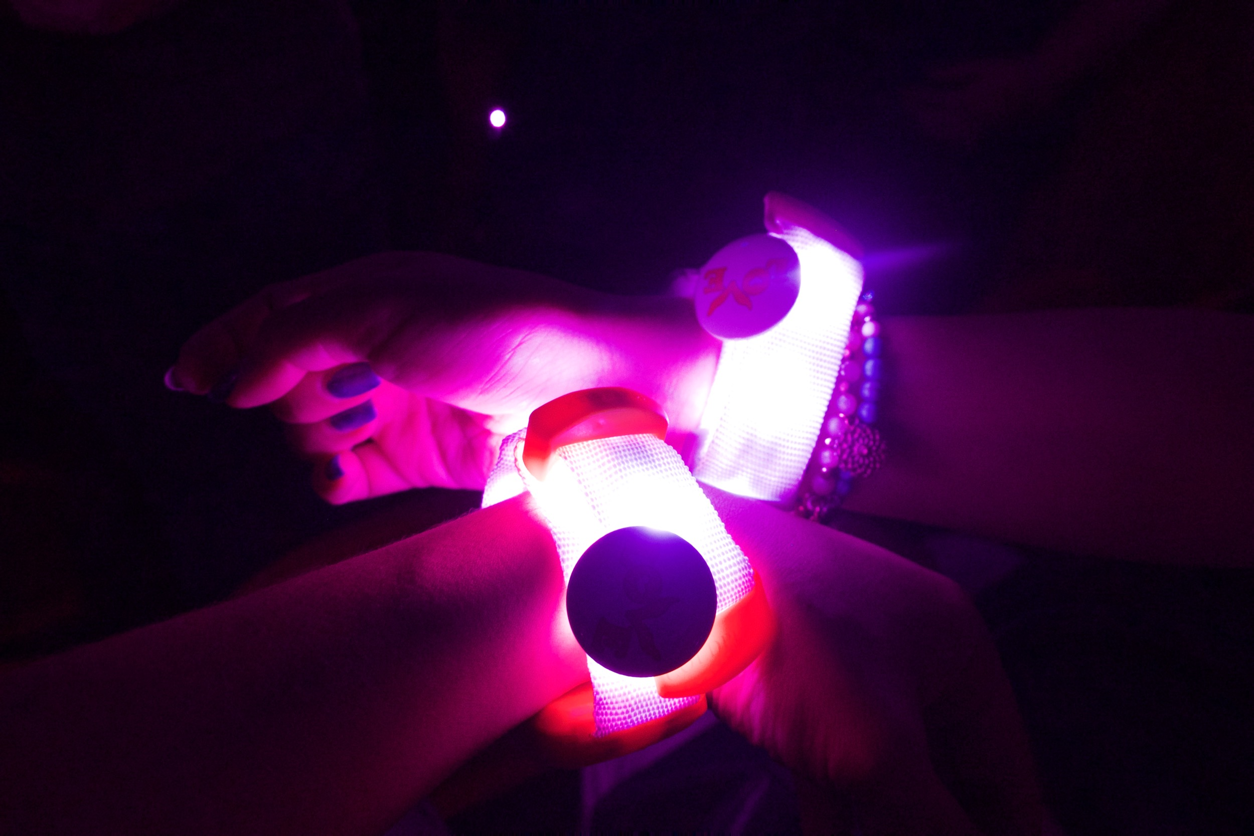 A profile of Xylobands in use during a concert on Coldplay's A Head Full of Dreams Tour, Amsterdam Arena, 24 June 2016.